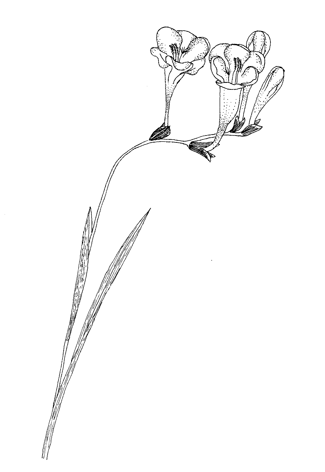 Freesia hybrid, July 28, 1976 Pendrawing on paper by Elly Waterman Pentekening op papier door Elly Waterman